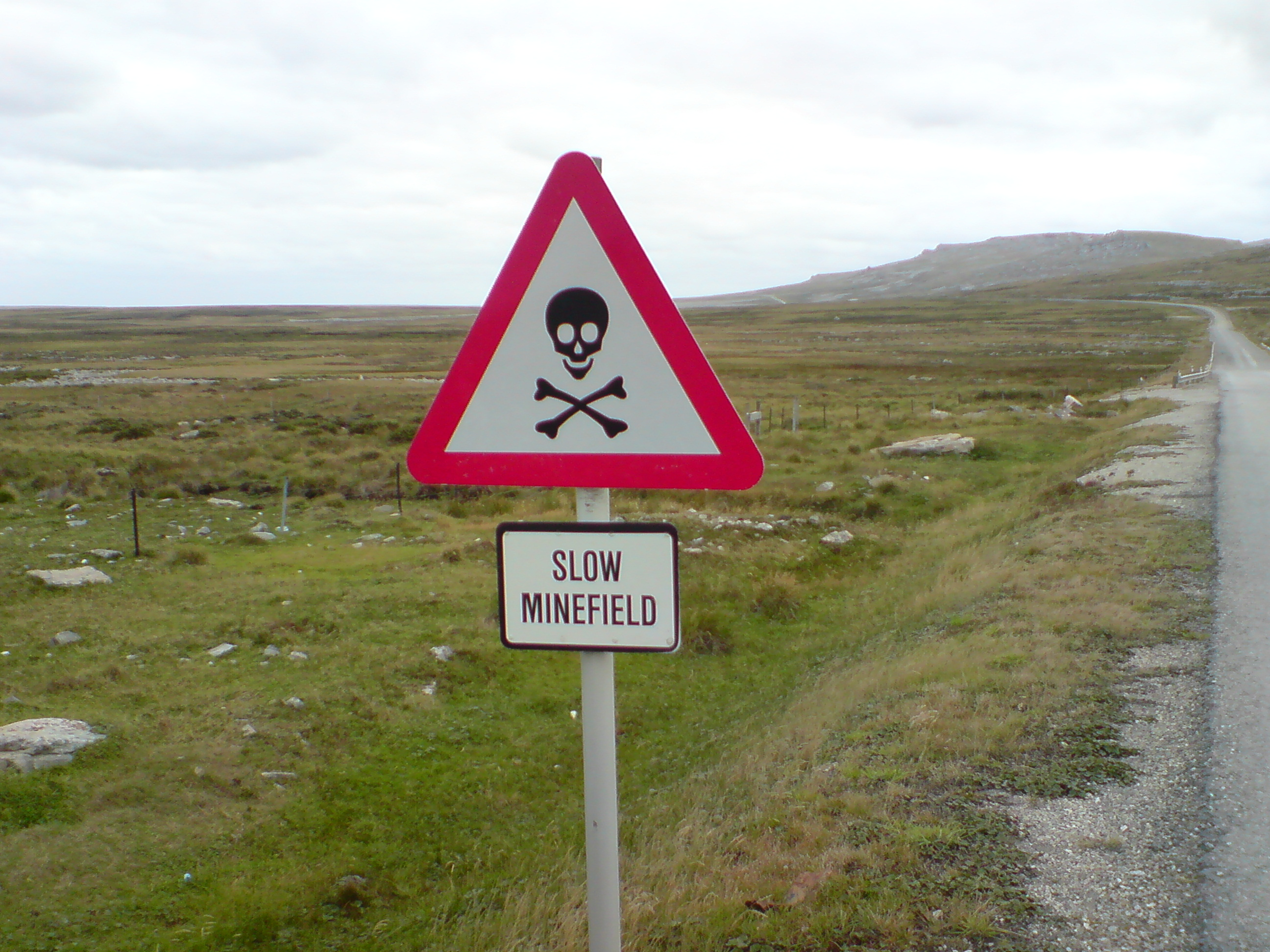 Roadsign Falkland Islands main road.